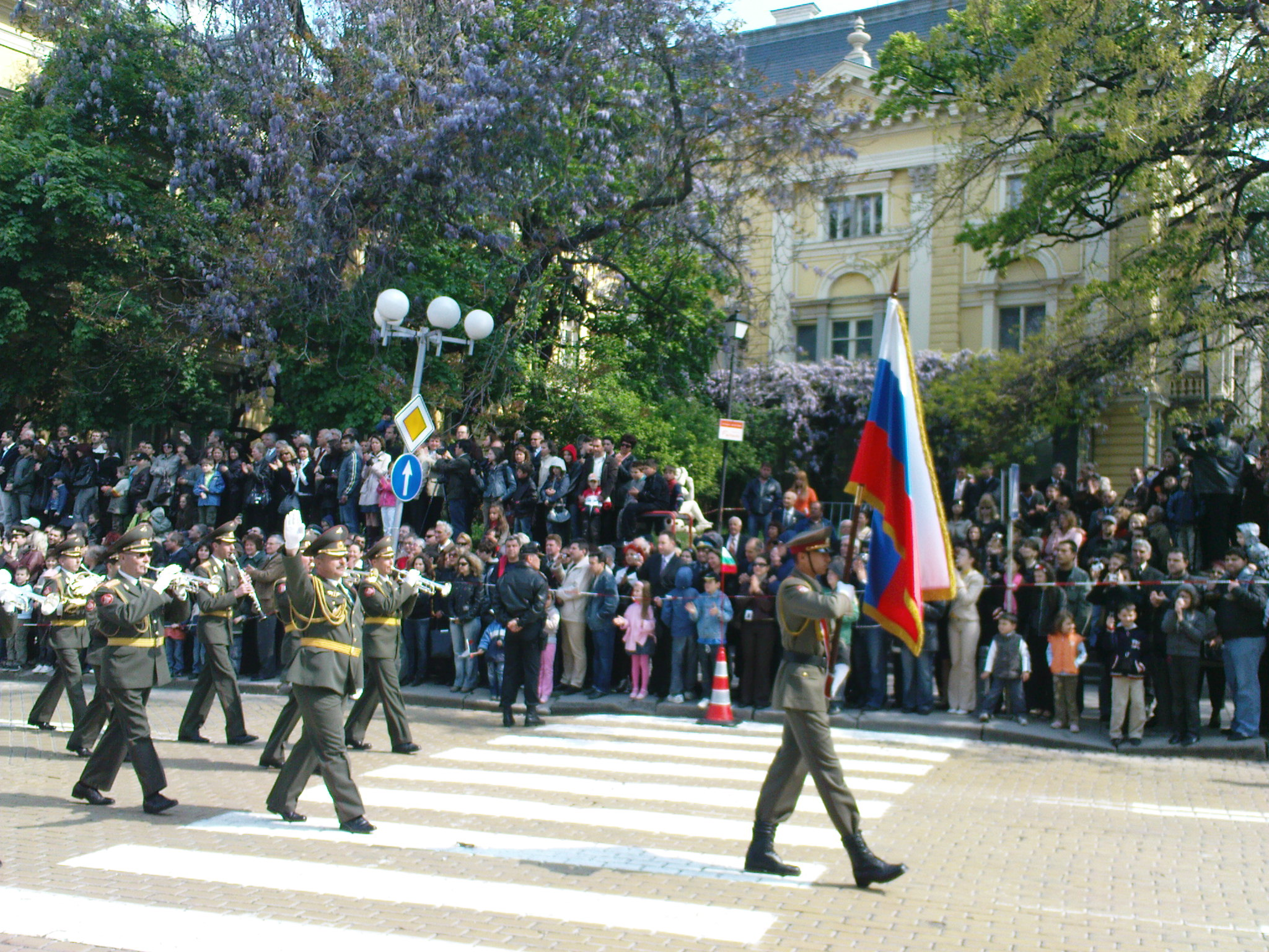 A Russian parading unit on Army day parade in Sofia